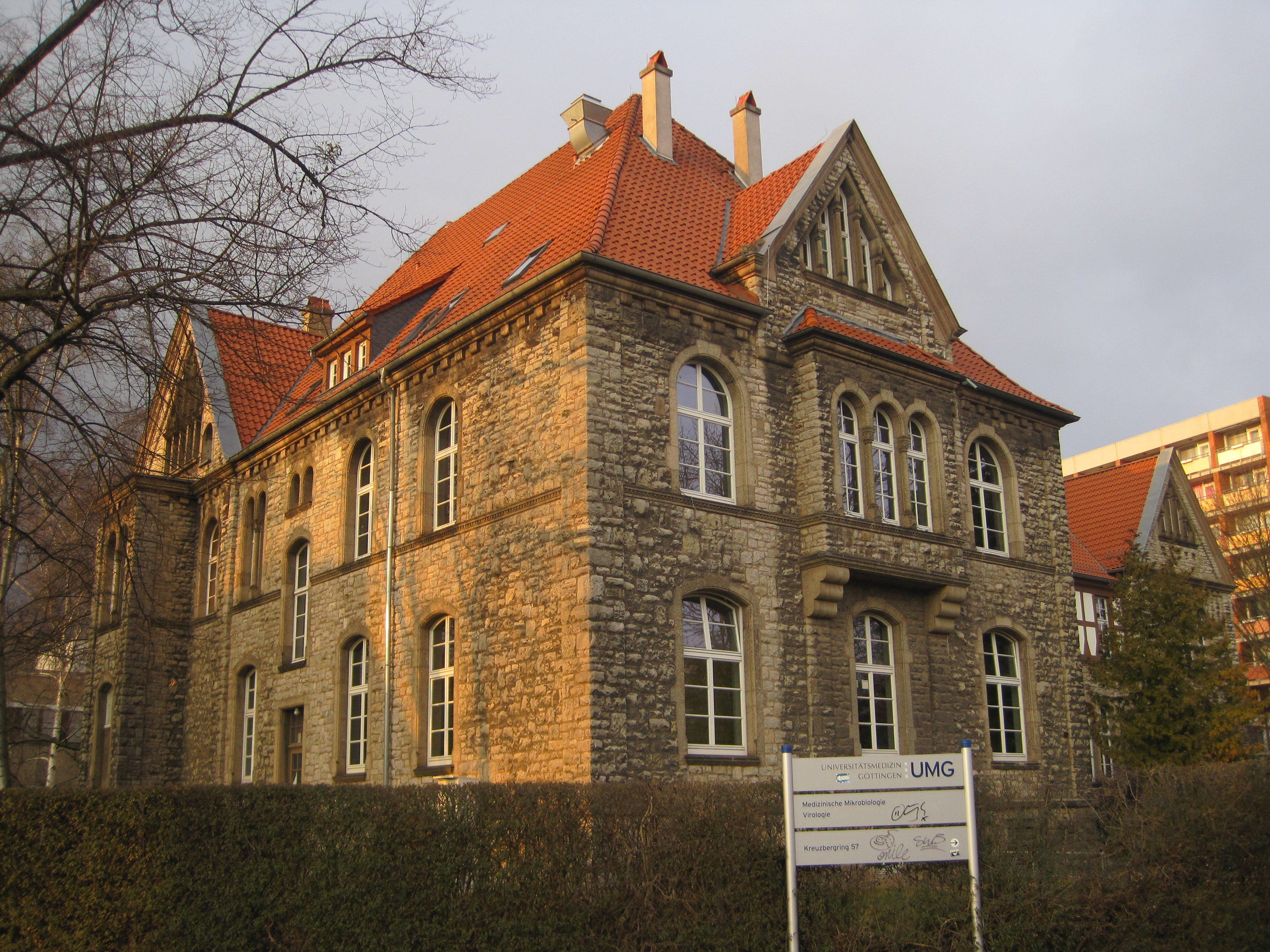 Microbiology research institute of Georg August University, Göttingen, Germany